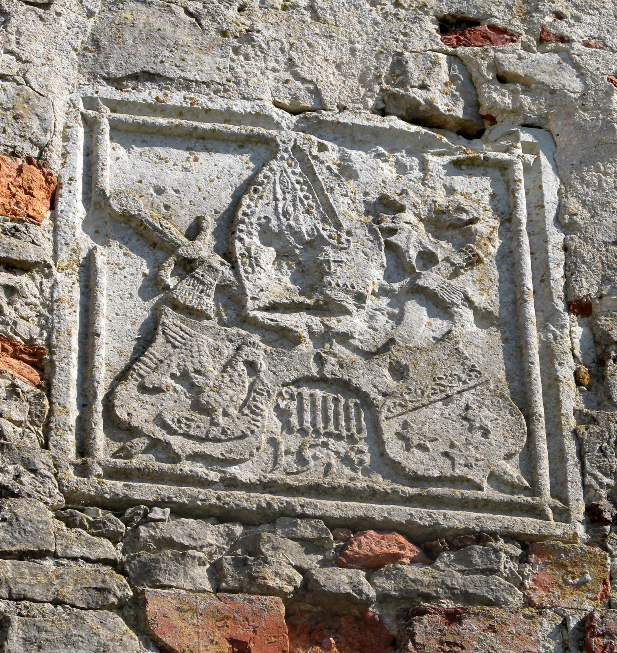 Coat of arms of the bishop Johann Kievel of Ösel-Wiek (Saare-Lääne) [1515-1527] from the castle of HaapsaluEesti: Saare-Lääne piiskopi Johannes Kieveli [1515-27] vapp Haapsalu piiskopilinnusel